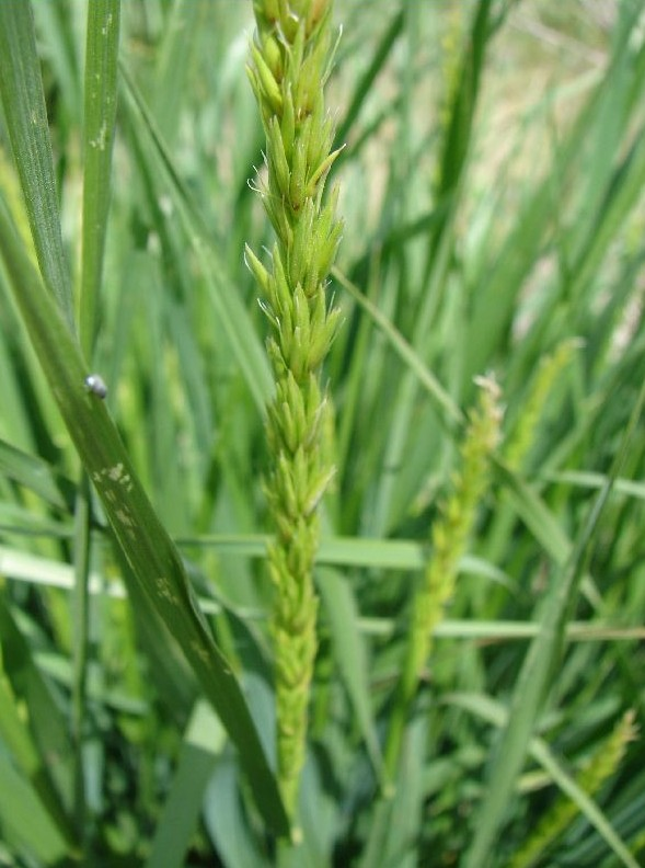 Leymus cinereus by Cassondra Skinner. Bureau of Land Management. United States, ID, Bureau of Land Management Jarbidge Resource Area. May 16, 2007. BLM photo, no copyright.